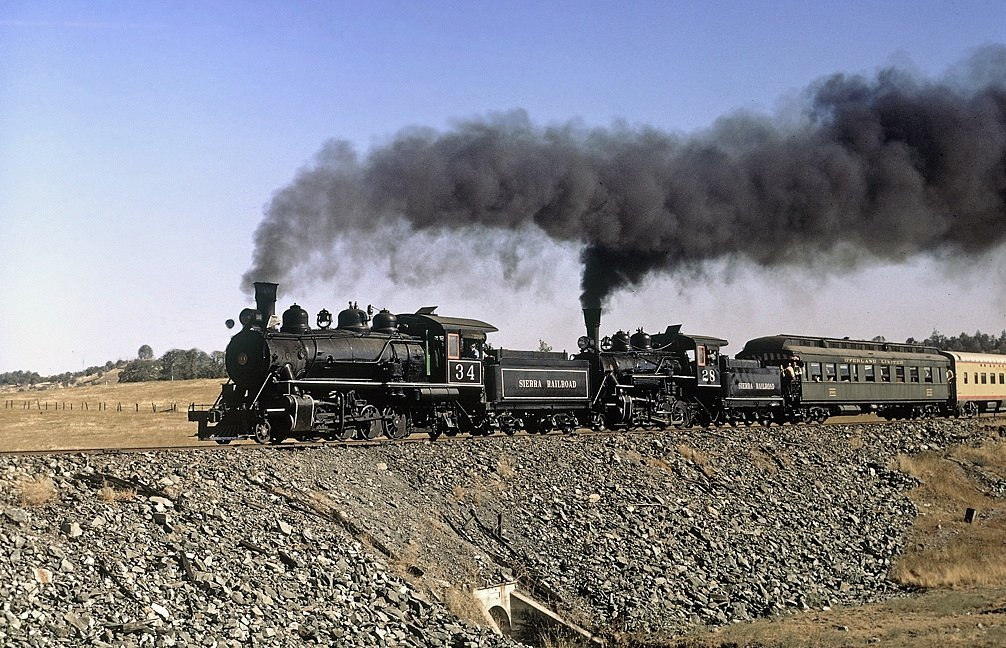 Sierra #34 and #28 start upgrade out of Chinese Camp September 1971